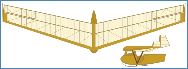 Lippisch/Phillip Storch 3 Flying wing